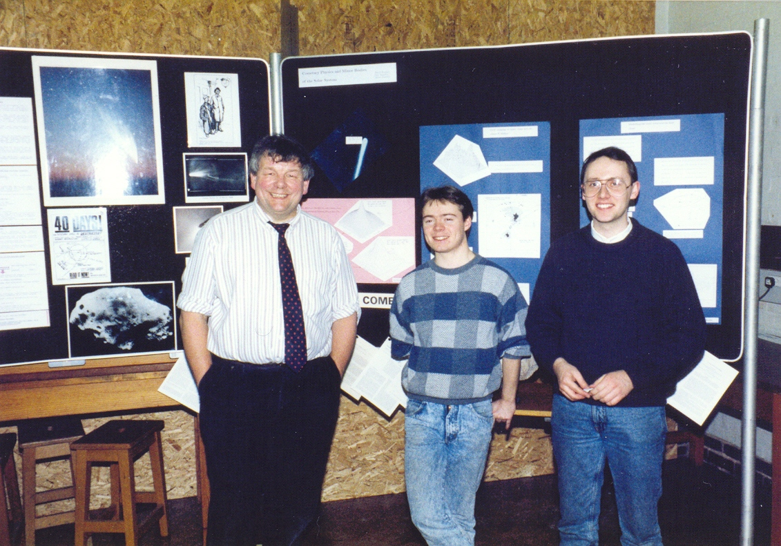 David Hughes and his research students James Boswell (centre) and Neil McBride (left), research bazar 1991.